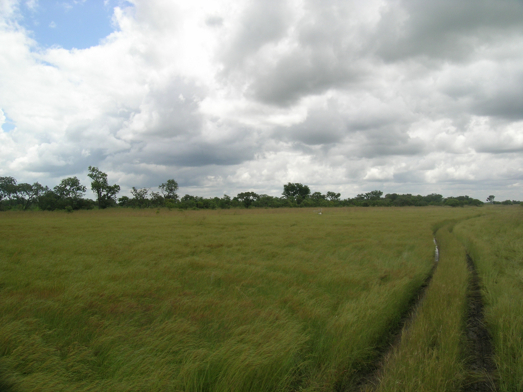 Undisturbed area in the Bontioli National Park, Burkina Faso, West Africa